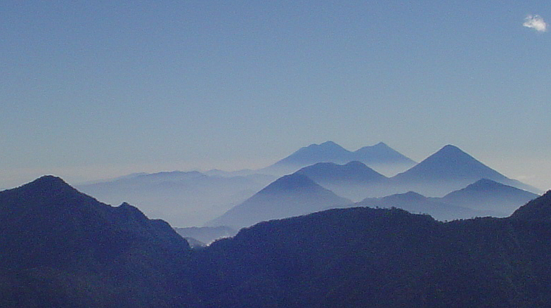 Volcanoes of Guatemala (Fuego, Acatenango, Agua, Pacaya, Atitlan, San Pedro). Seen from the top of the Santa Maria volcano in Quetzaltenango, Guatemala.